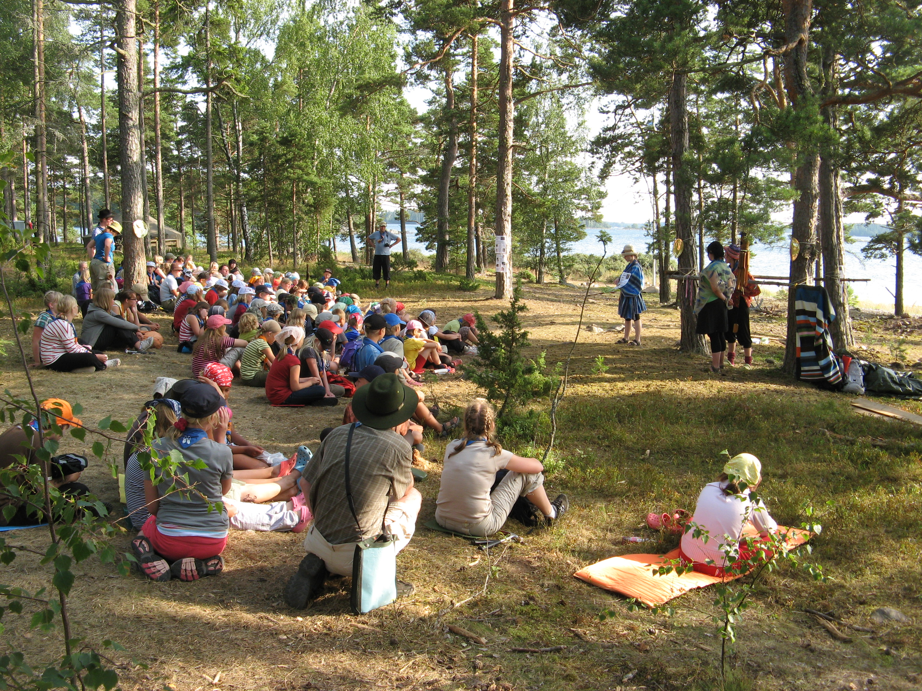 "Inkas" explaining how to make a piece of jewelry on the joint summer camp of the scouts of South-Western Finland 2009, "Reila". Archipelago of the Bothnian Sea in the background.